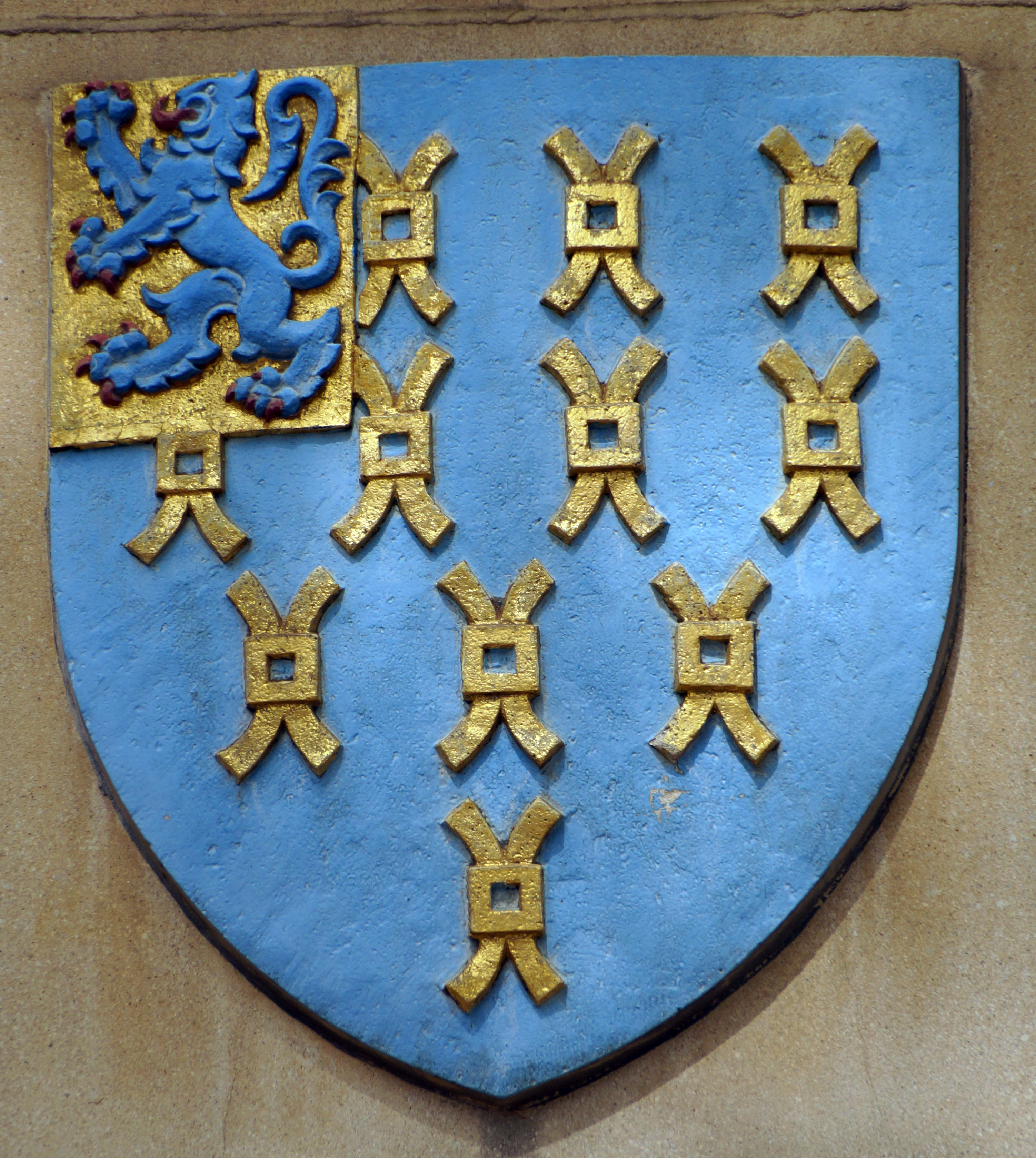 Sculpture of heraldic shields on the Fountain Court building, Steelhouse Lane, Birmingham, England by local sculptor William Bloye, 1964.